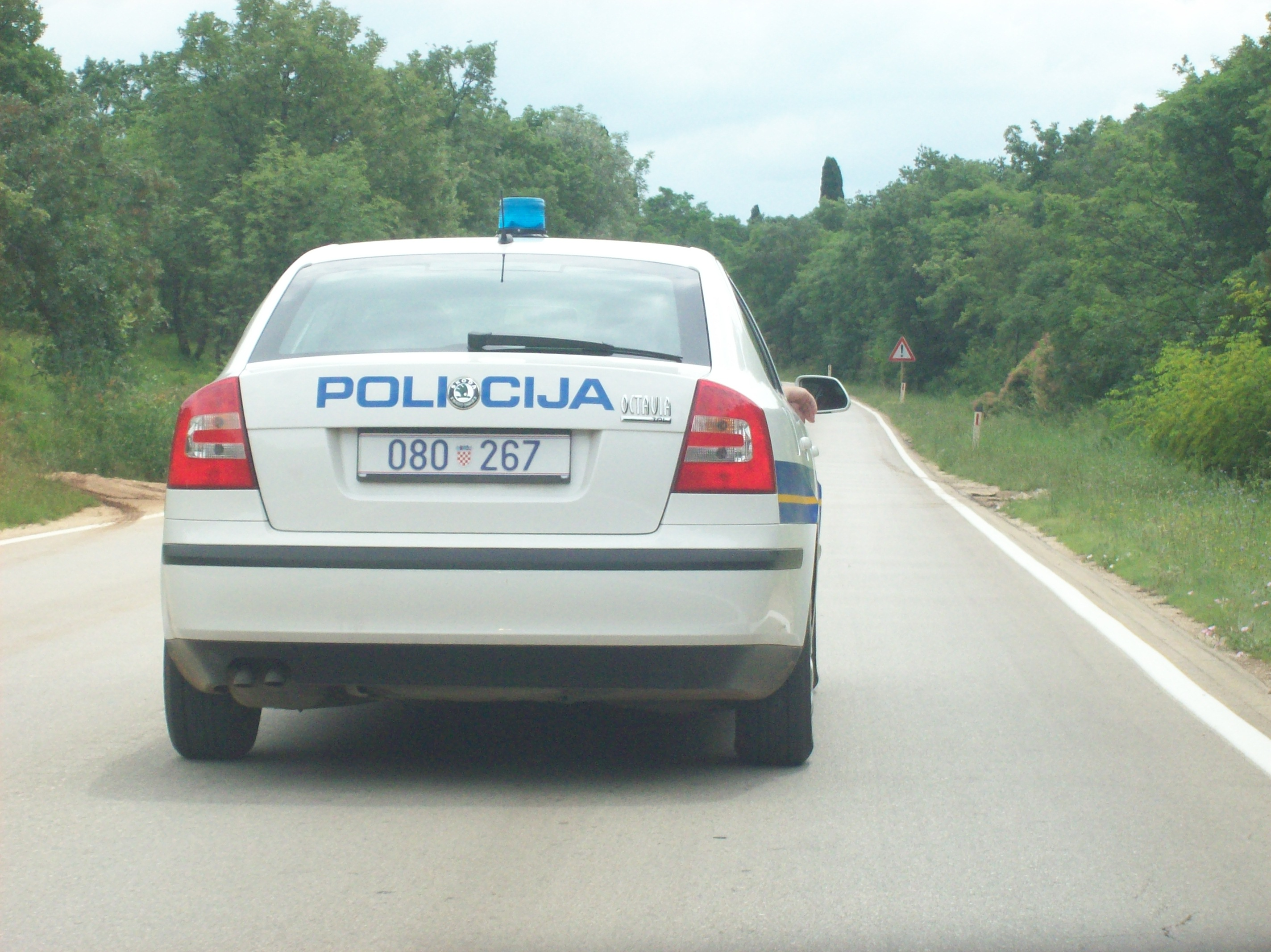 Police car (Croatia)